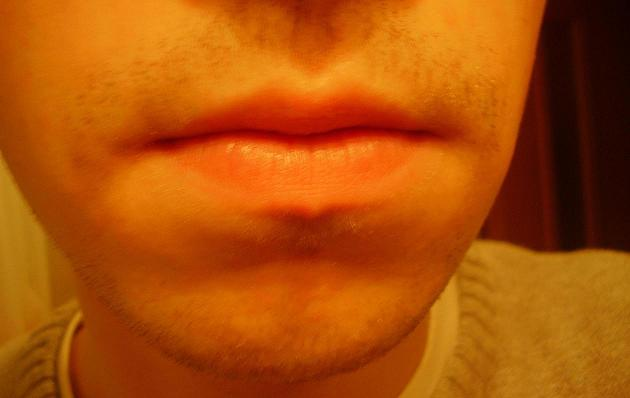 lips